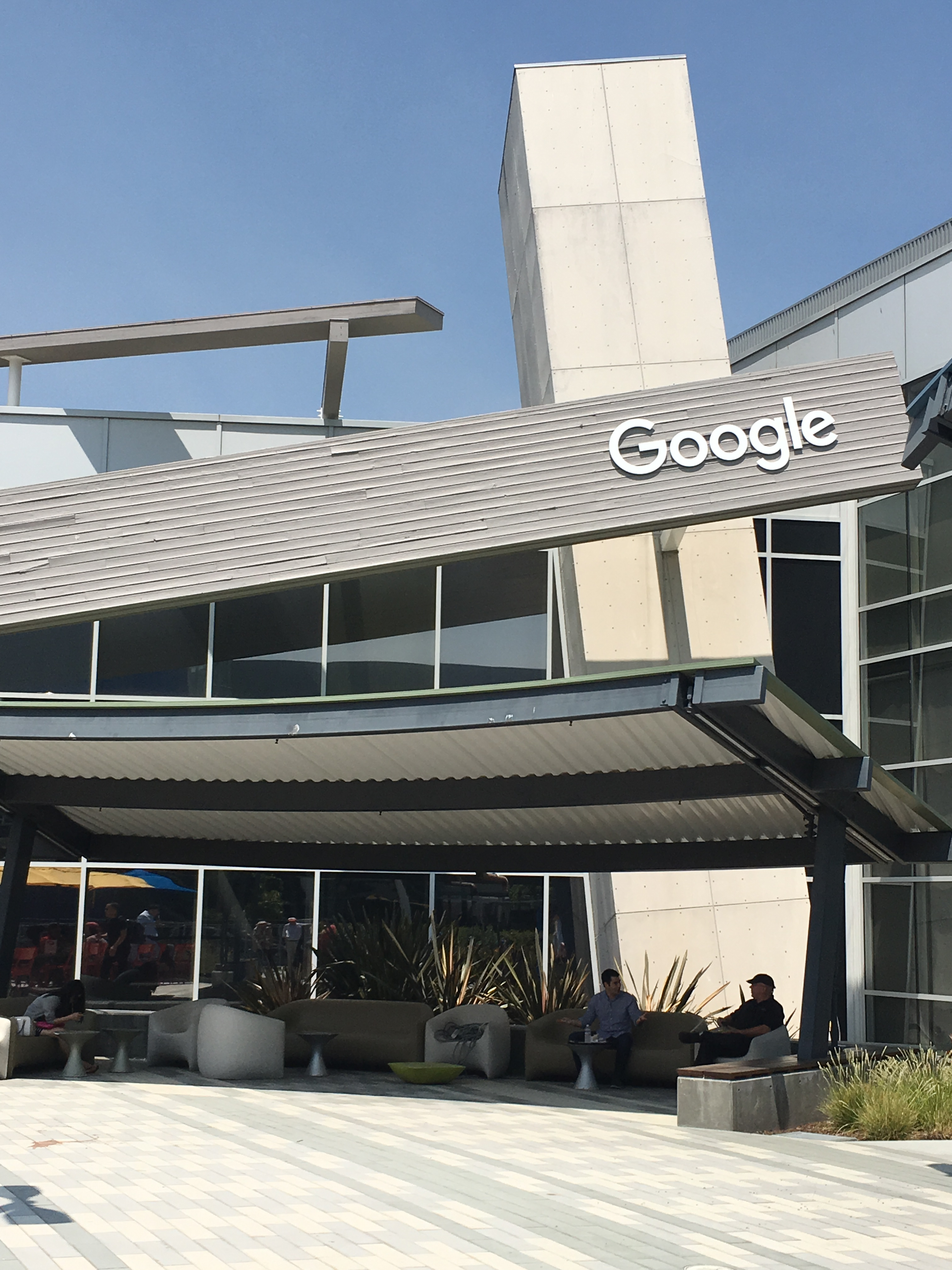 A restaurant at Googleplex, San Jose